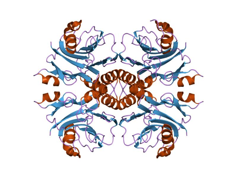 Cartoon representation of the molecular structure of protein registered with 2ntm code.